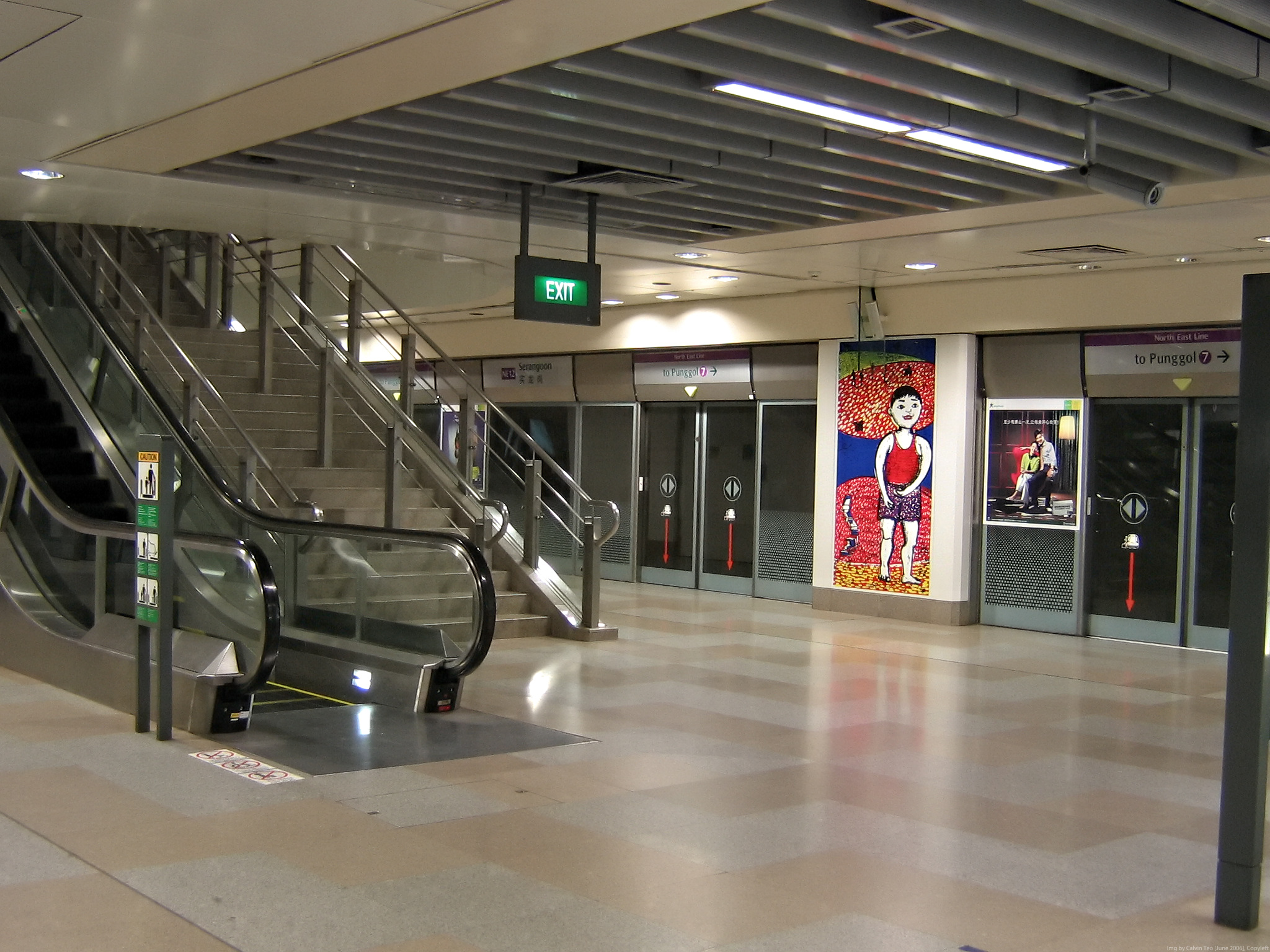 Another view of the platform at Serangoon MRT Station Img by Calvin Teo, June 2006